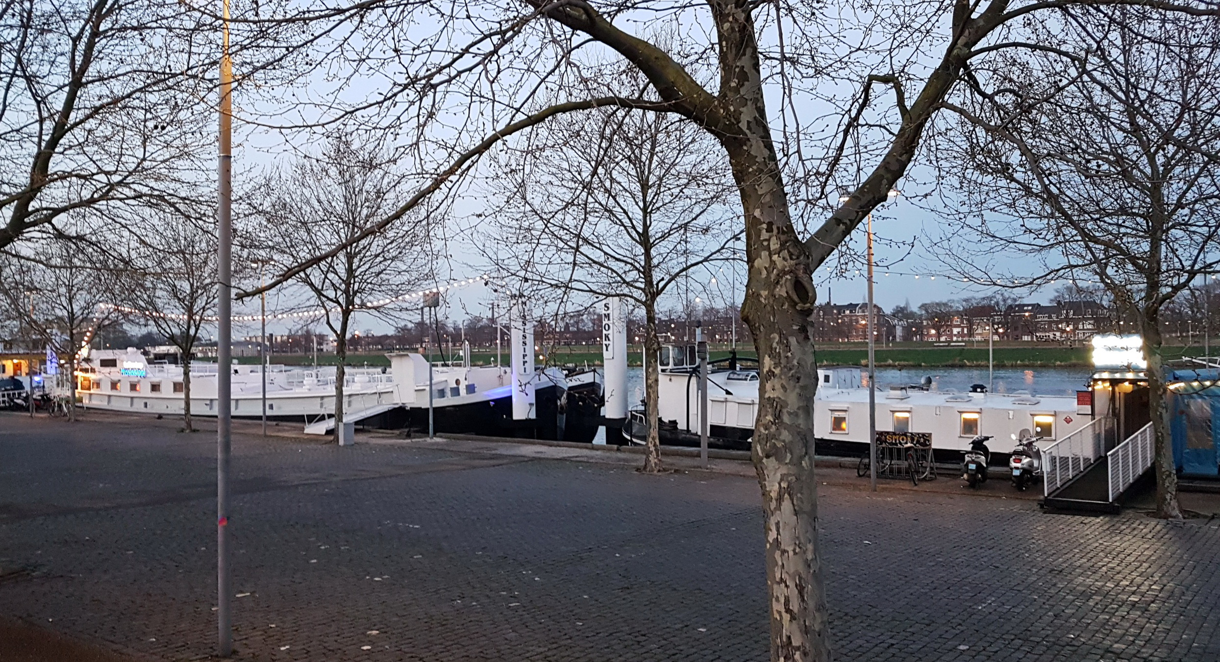 View of "coffeeshop" boats at Maaspromenade in Maastricht, Netherlands.